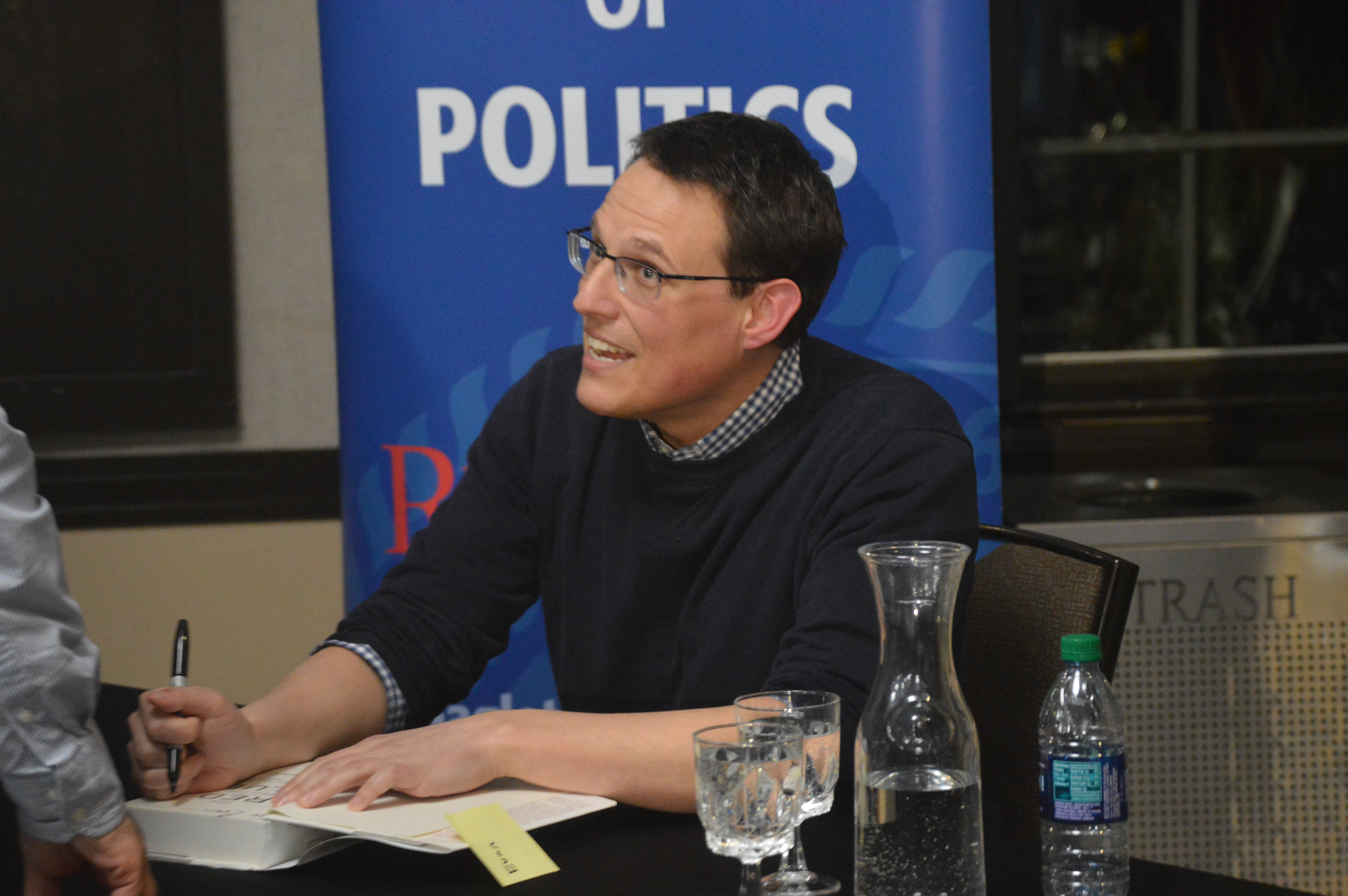 Steve Kornacki at Rutgers University signing copies of his new book, "The Red and the Blue: The 1990s and the Birth of Political Tribalism." This was an Eagleton Institute event at Douglas Student Center, New Brunswick, NJ.